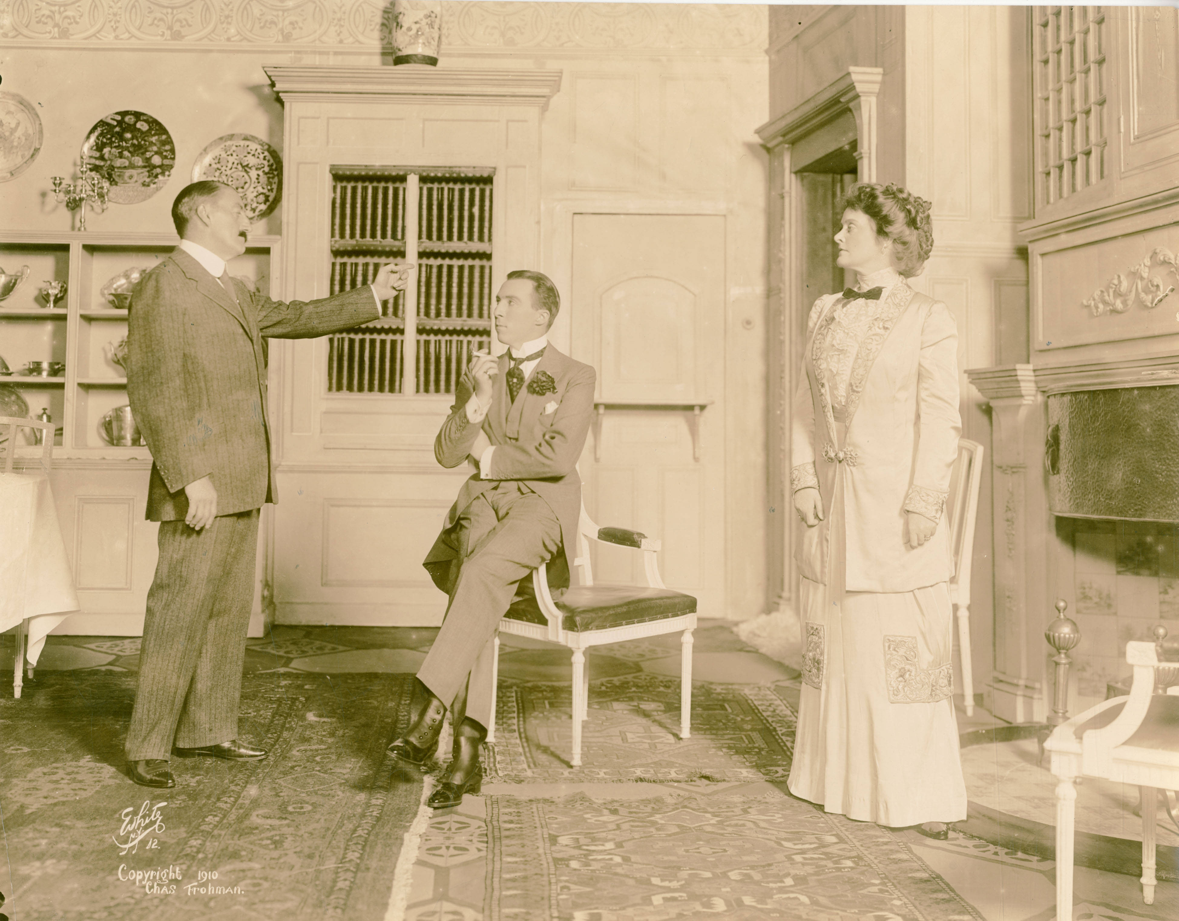 A scene from "Smith," which opened June 26, 1911, at the Moore Theater, Seattle. Includes John Drew (left), Hassard Short, and Isabel Irving. Subjects: plays, actors, actresses